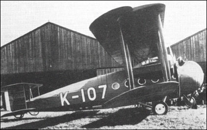 Vickers Vimy Commercial transport aircraft